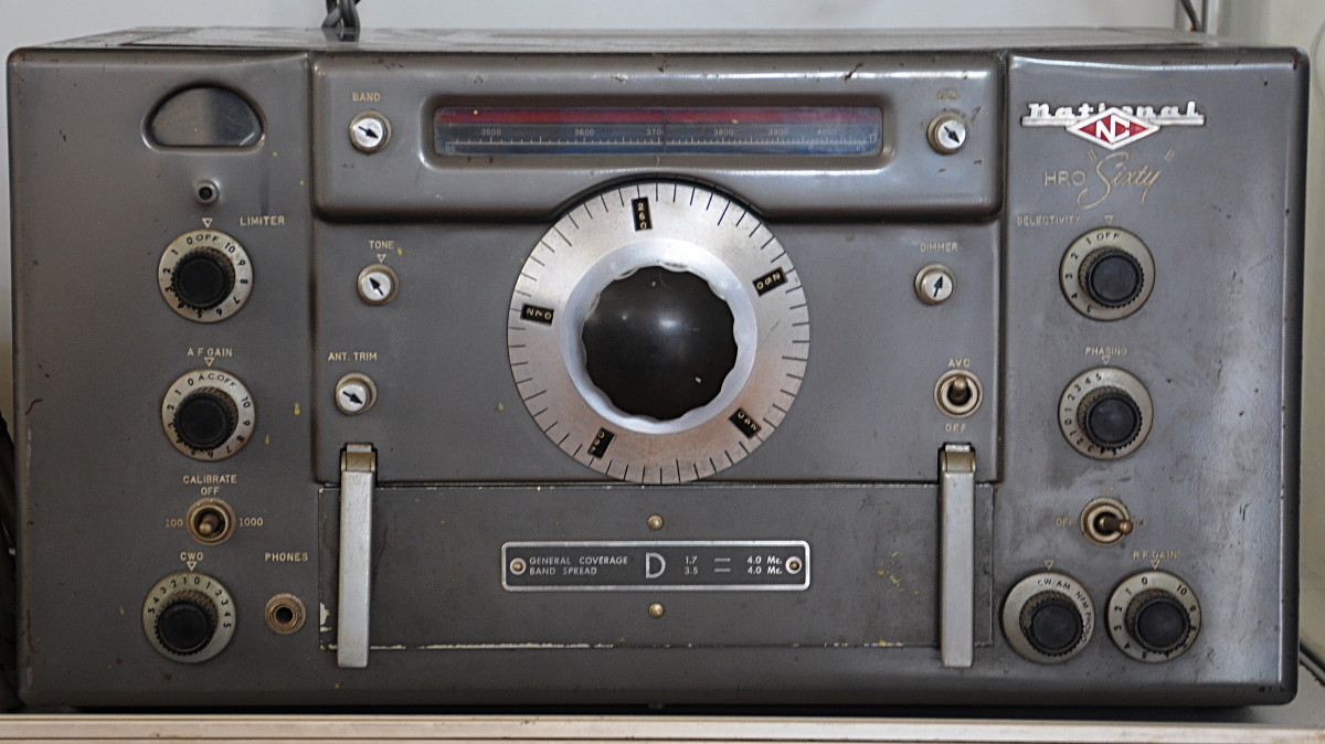 National HRO-60 communications receiver (in production 1952-1964). (DSC 7853)